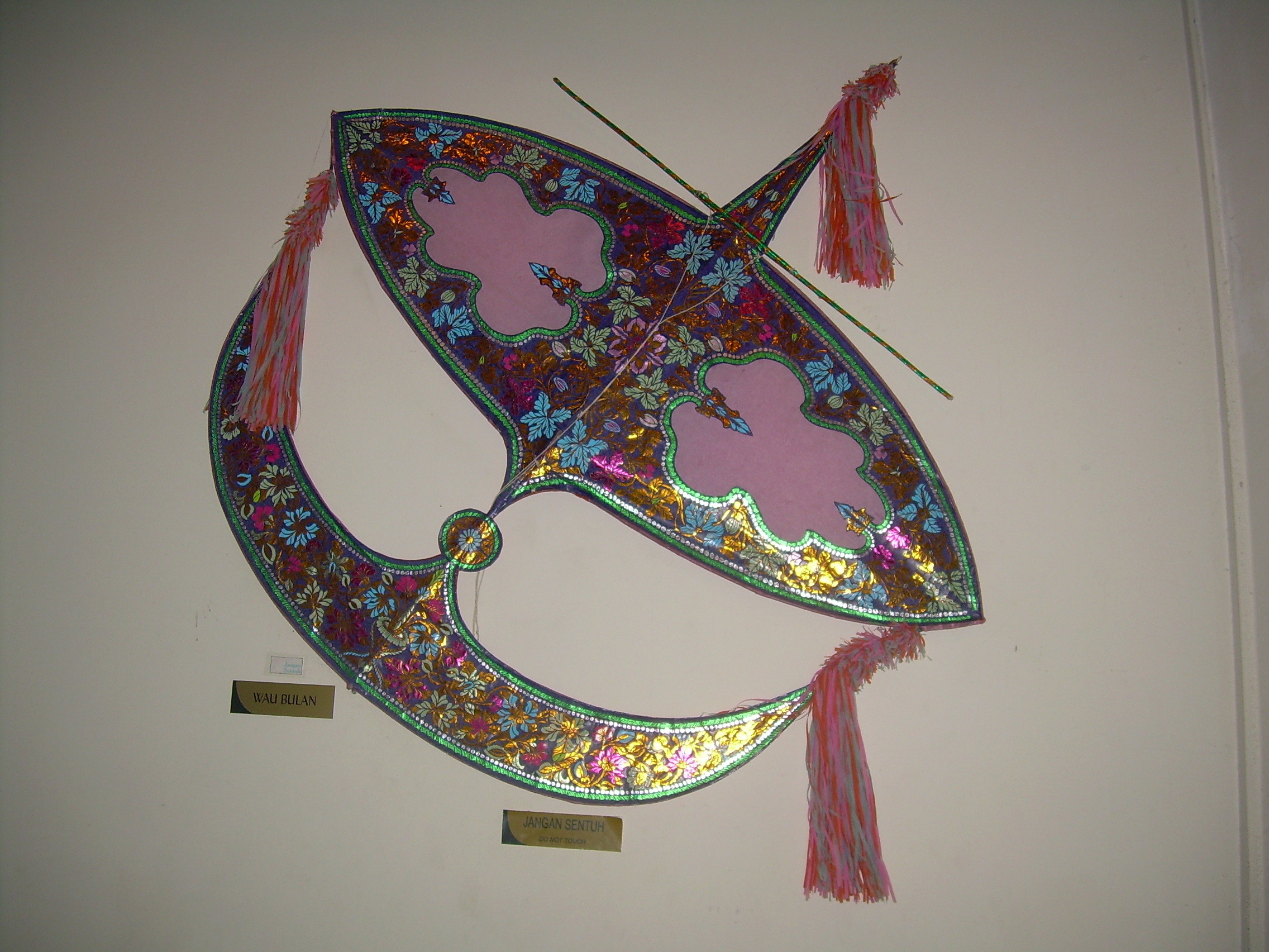 Wau bulan, Malaysia traditional kites, hanged in Pasir Gudang Kites Museum.